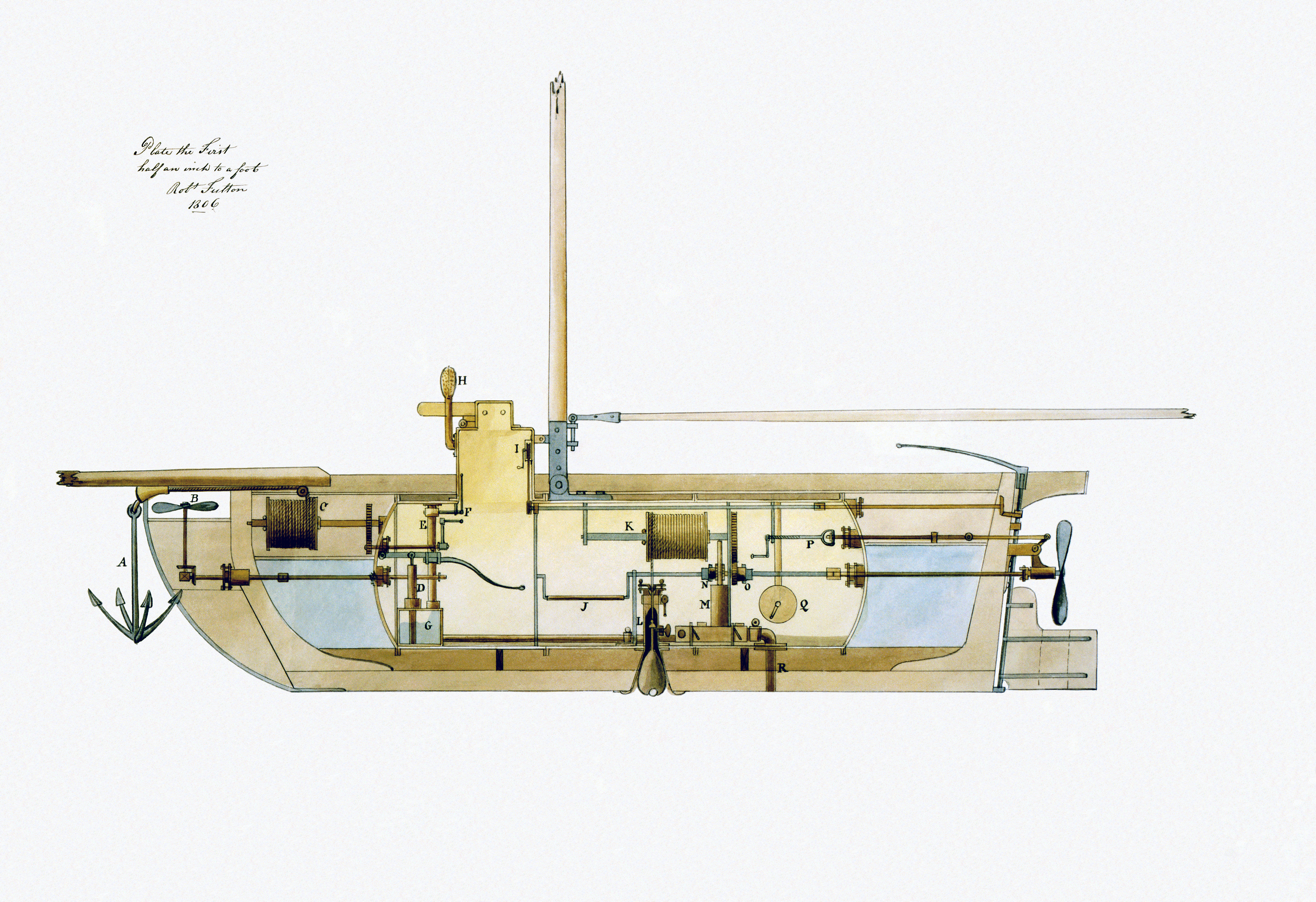 Submarine ("Submarine Vessel, Submarine Bombs and Mode of Attack") for the United States government. Submarine vessel, longitudinal section. Scan from original engineering design in pencil, ink, and watercolor. 1806.